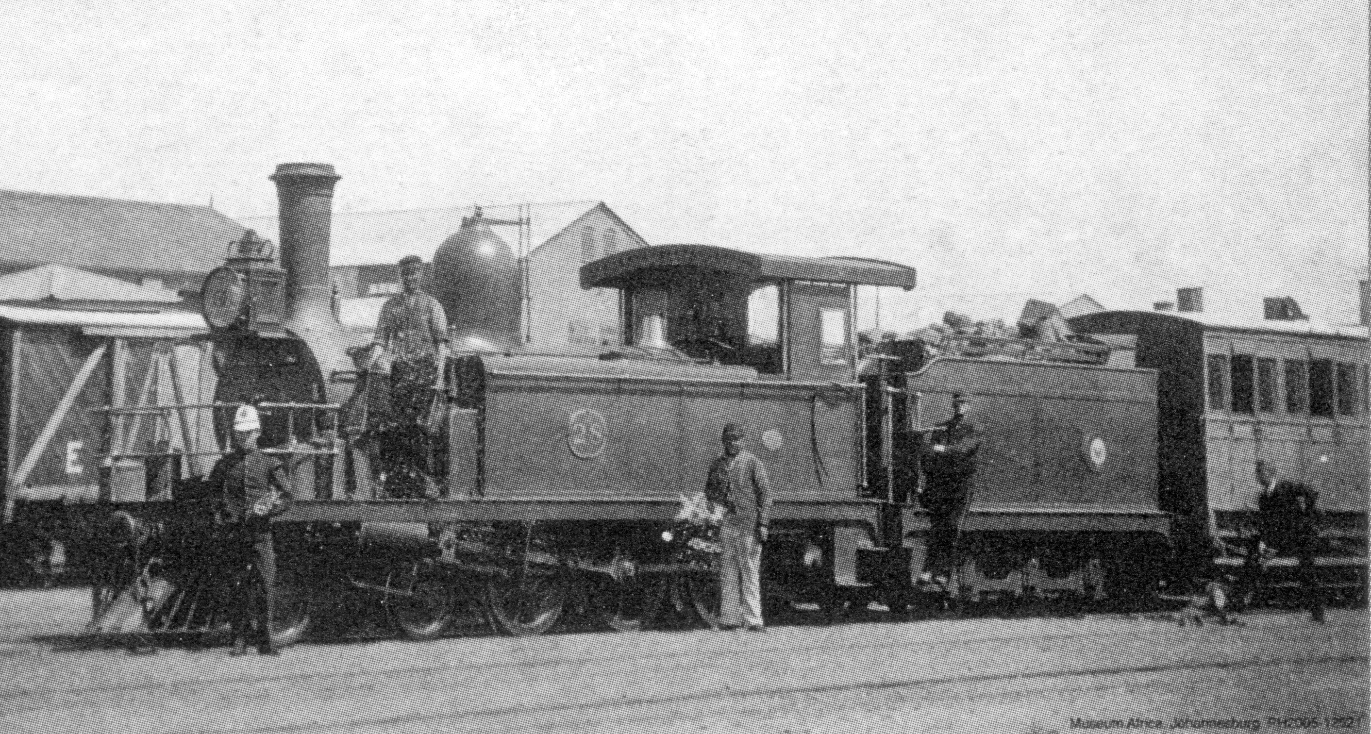 Cape Government Railways 4th Class 4-6-0TT no. E28 of 1880